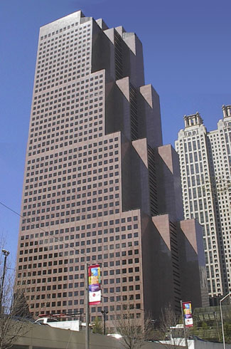 View from the southeast of the Georgia Pacific Building in Atlanta, Georgia - (Photo taken by Ashley Moore and released under terms of the GNU FDL.)